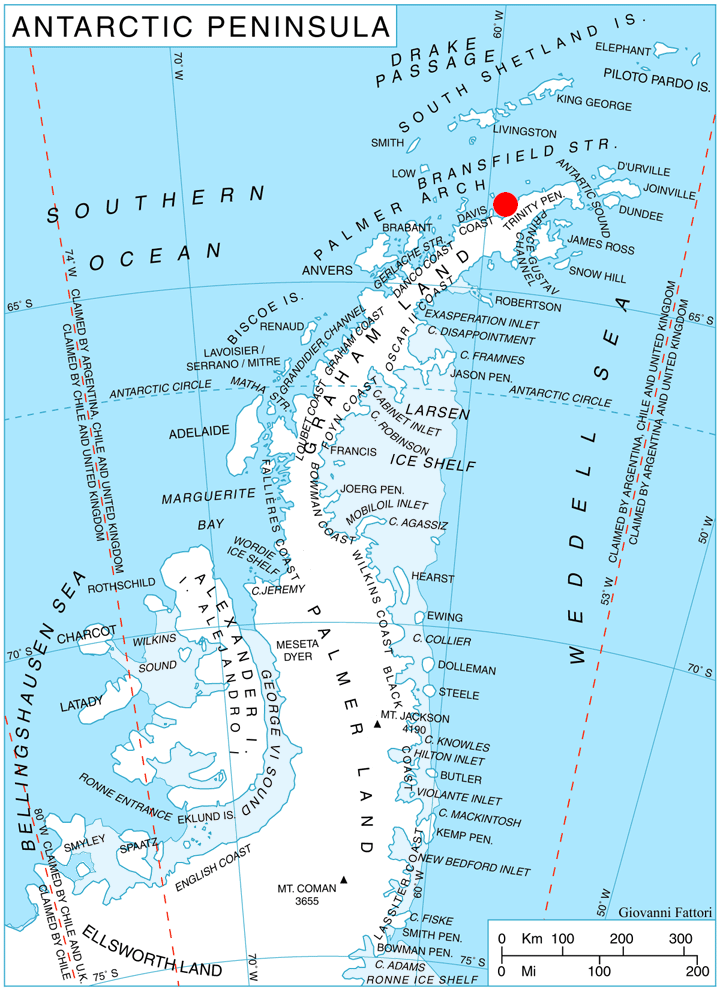 Location of Belitsa Peninsula in Graham Land, Antarctic Peninsula.